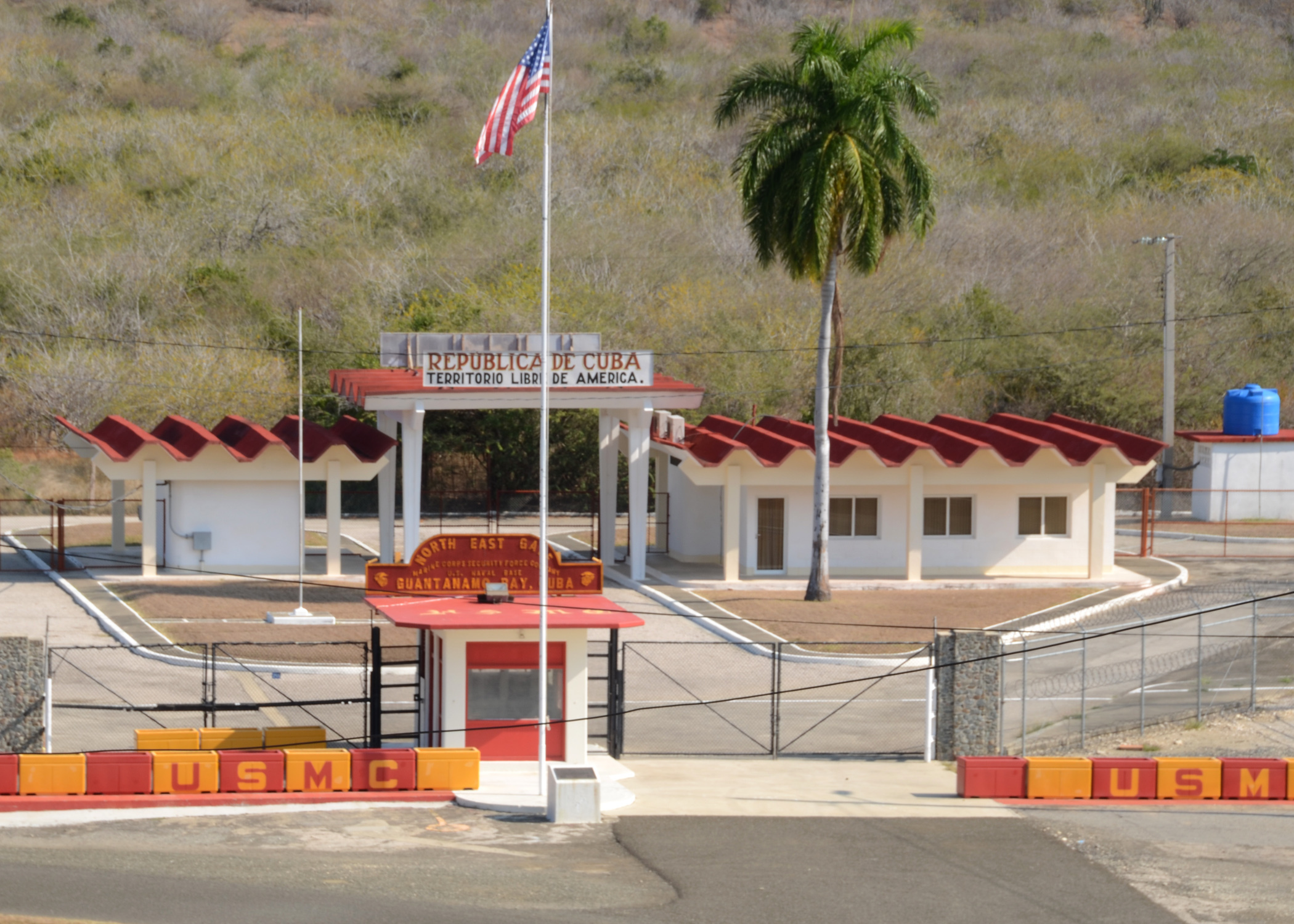 View of the Northeast Gate at the U.S. Naval Station Guantanamo Bay that separates the installation from Cuba. Naval Station Guantanamo Bay was established in 1903, making it the oldest U.S. overseas naval installation.